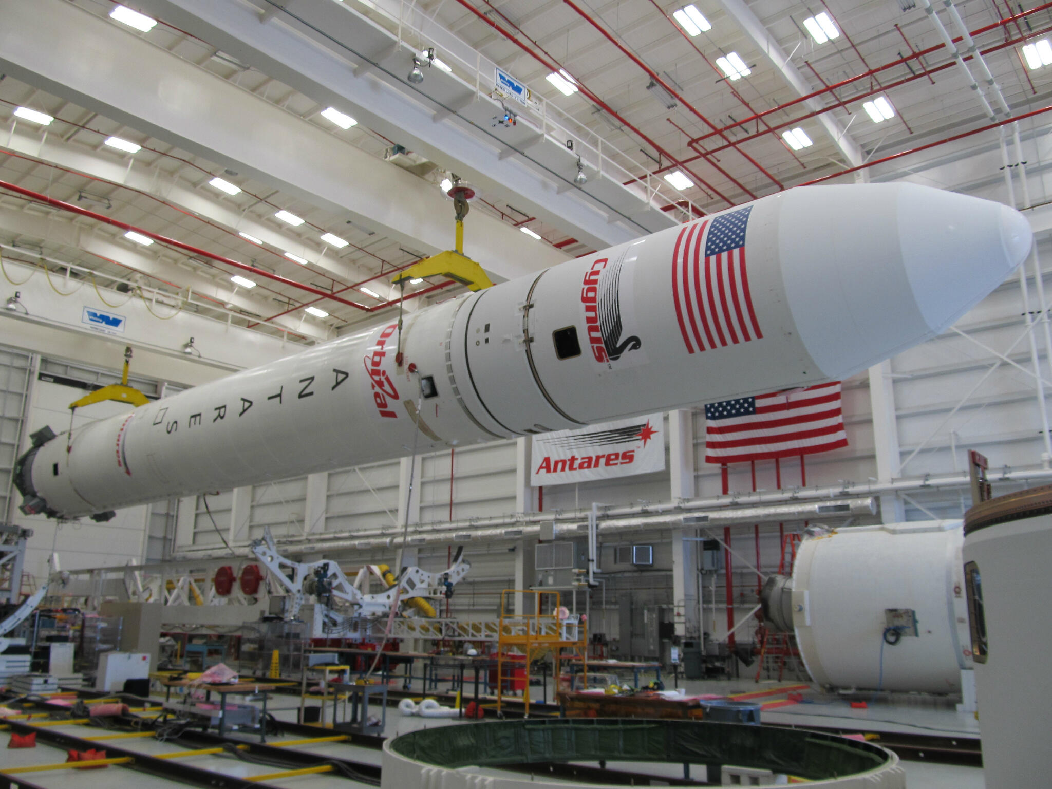 The Antares rocket for Orbital Science's A-ONE inaugural mission is hoisted inside Wallops' Horizontal Integration Facility for placement on its transporter. It will be moved to the launch pad on the morning of Saturday, April 6, 2013.